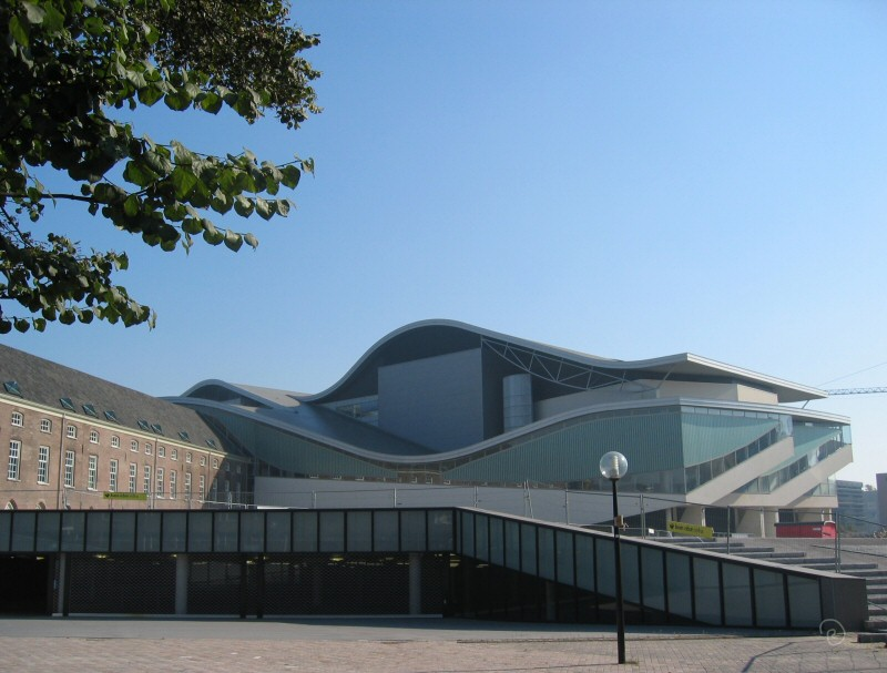 Chassé Theater (Chassé Theatre) Breda, September 2003, Picture taken by J Buijs.